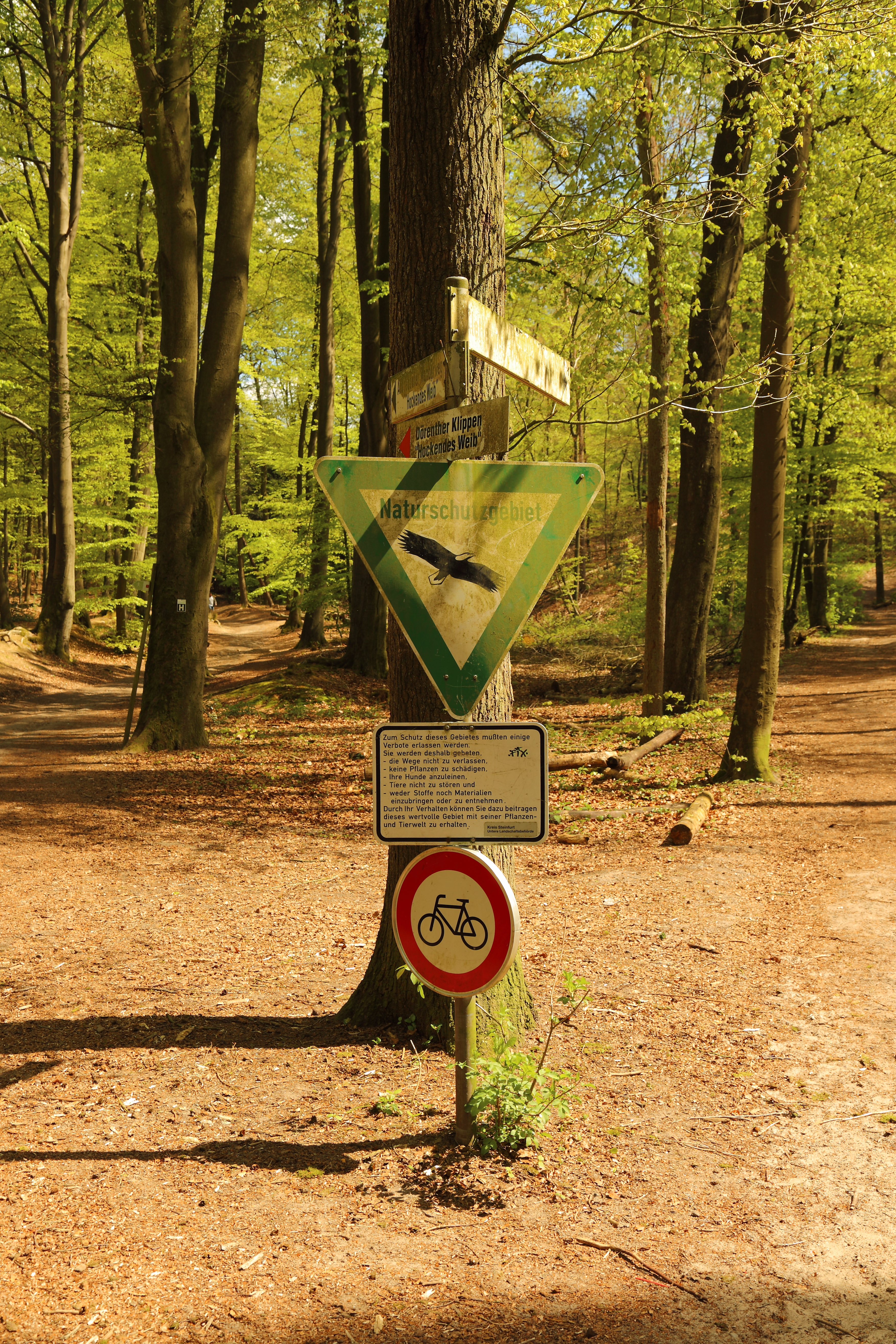 Hiking trails and signs at the nature reserve „Dorenthe Cliffs“ (Naturschutzgebiet Dörenther Klippen) near Ibbenbüren-Dörenthe, Kreis Steinfurt, North Rhine-Westphalia, Germany. On this trails walking is allowed, but cycling not.